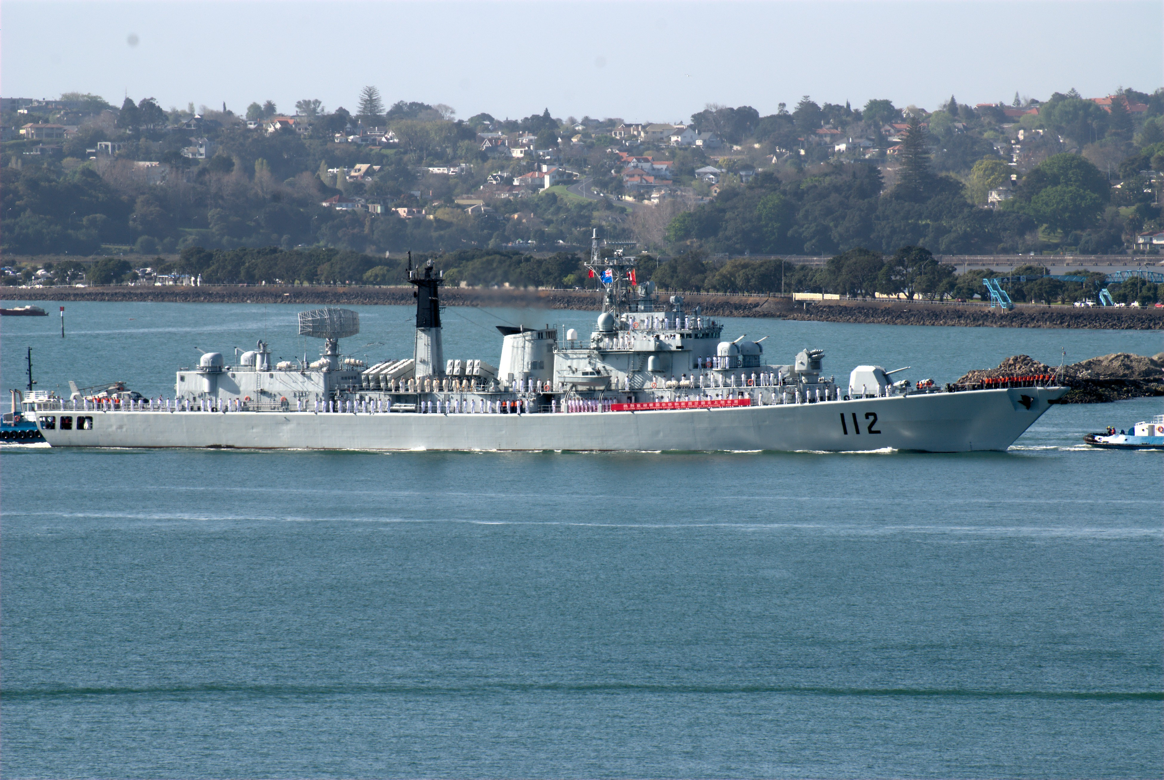 The Peoples Liberation Army Navy Ship HARBIN (DDG112), a LUHU Destroyer, on a visit to Auckland, New Zealand. New Zealand Defence Force PRess Release The red banner along the side of the deck is subtitled in English with the words: "WELCOME PATRIOTIC OVERSEAS CHINESE AND THE FRIENDS OF NEW ZEALAND TO OUR SHIP"